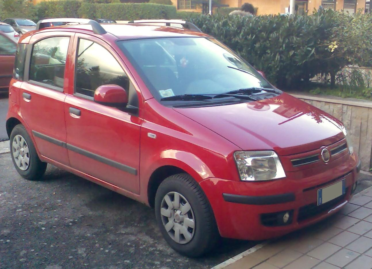 Fiat Panda 2010